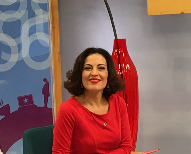 Desislava Stoianova - Bulgarian journalist